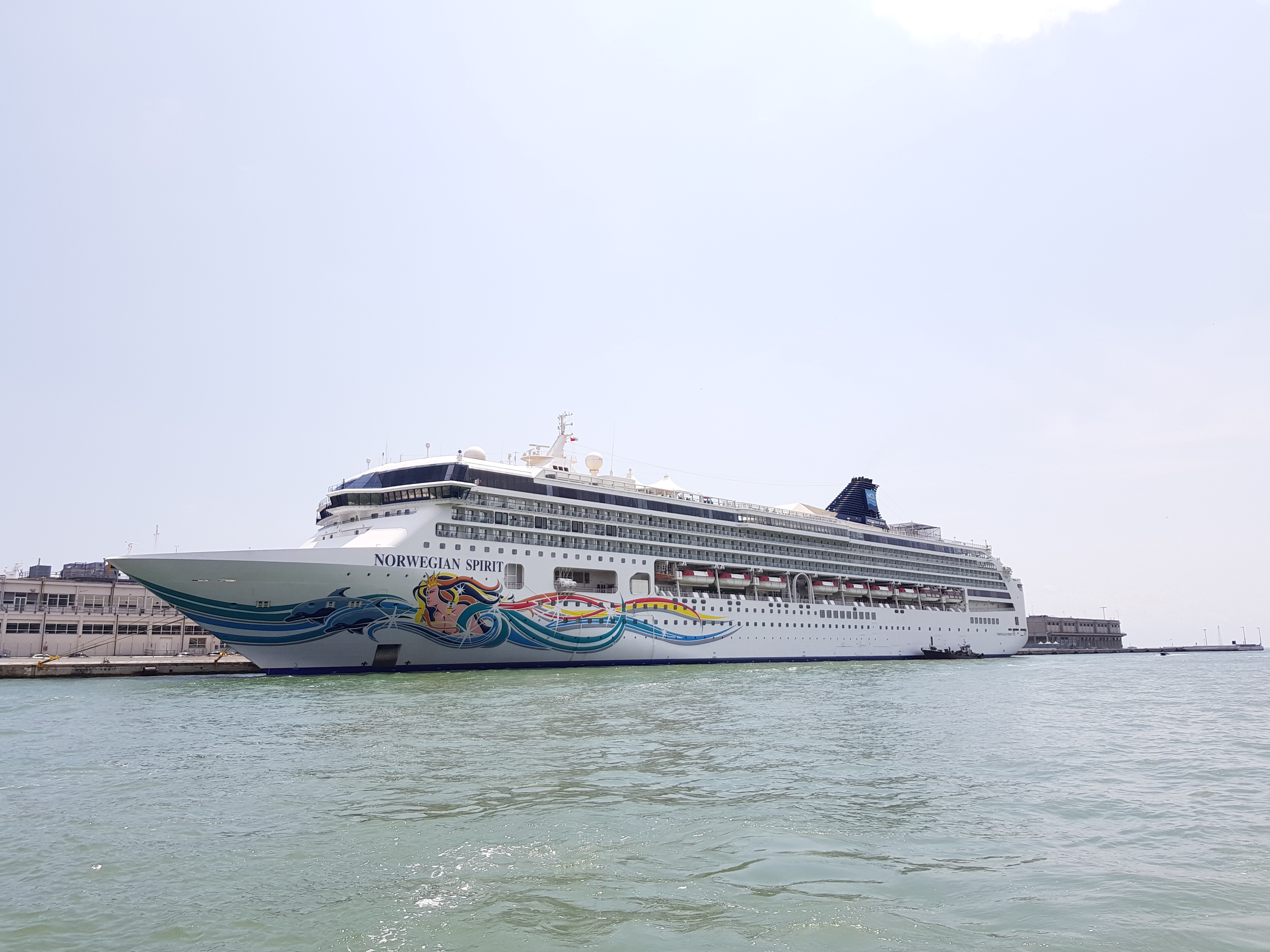 The Norwegian Spirit at the Port of Venice in July 2018.